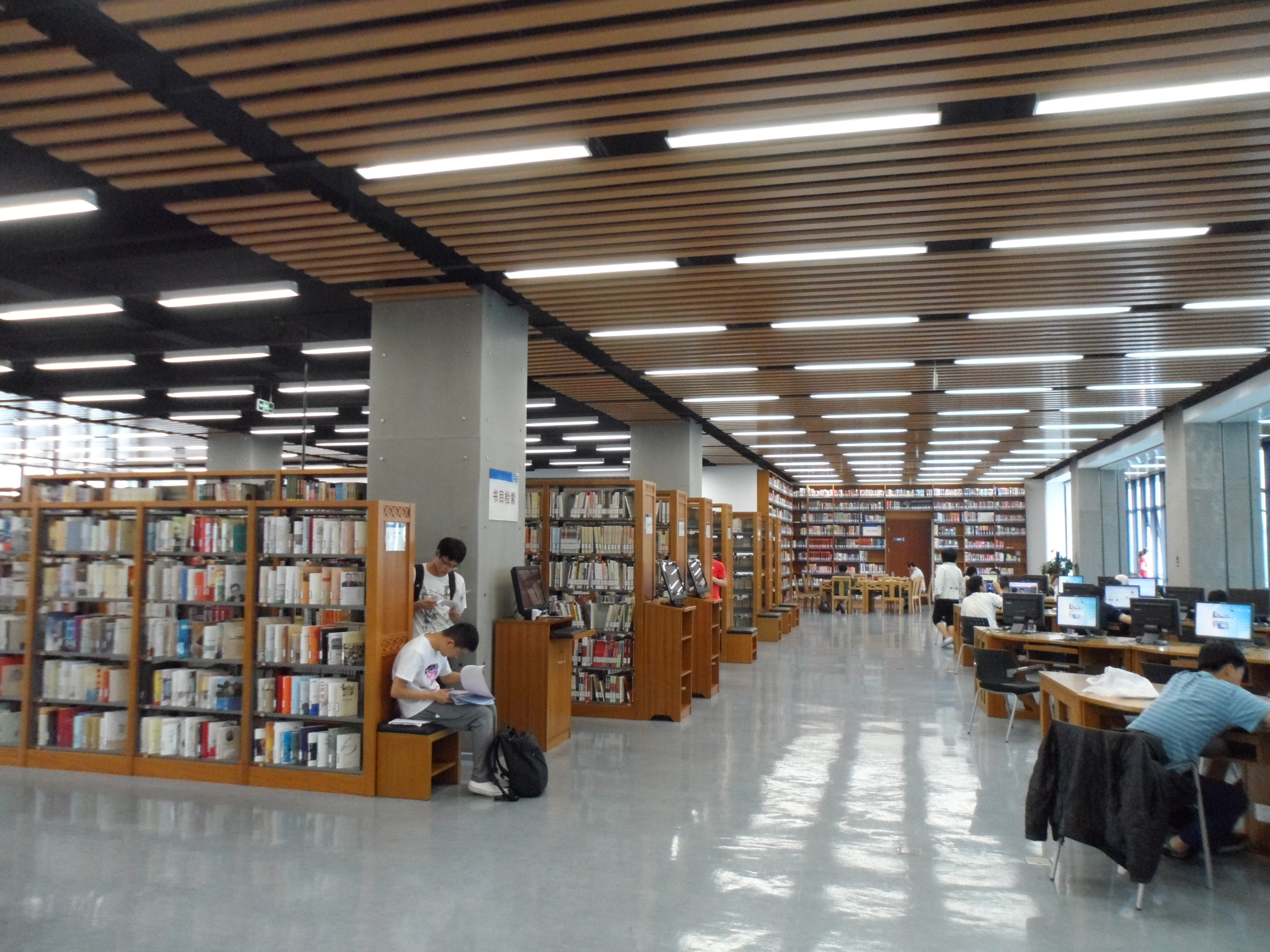 Inside Capital Library of China